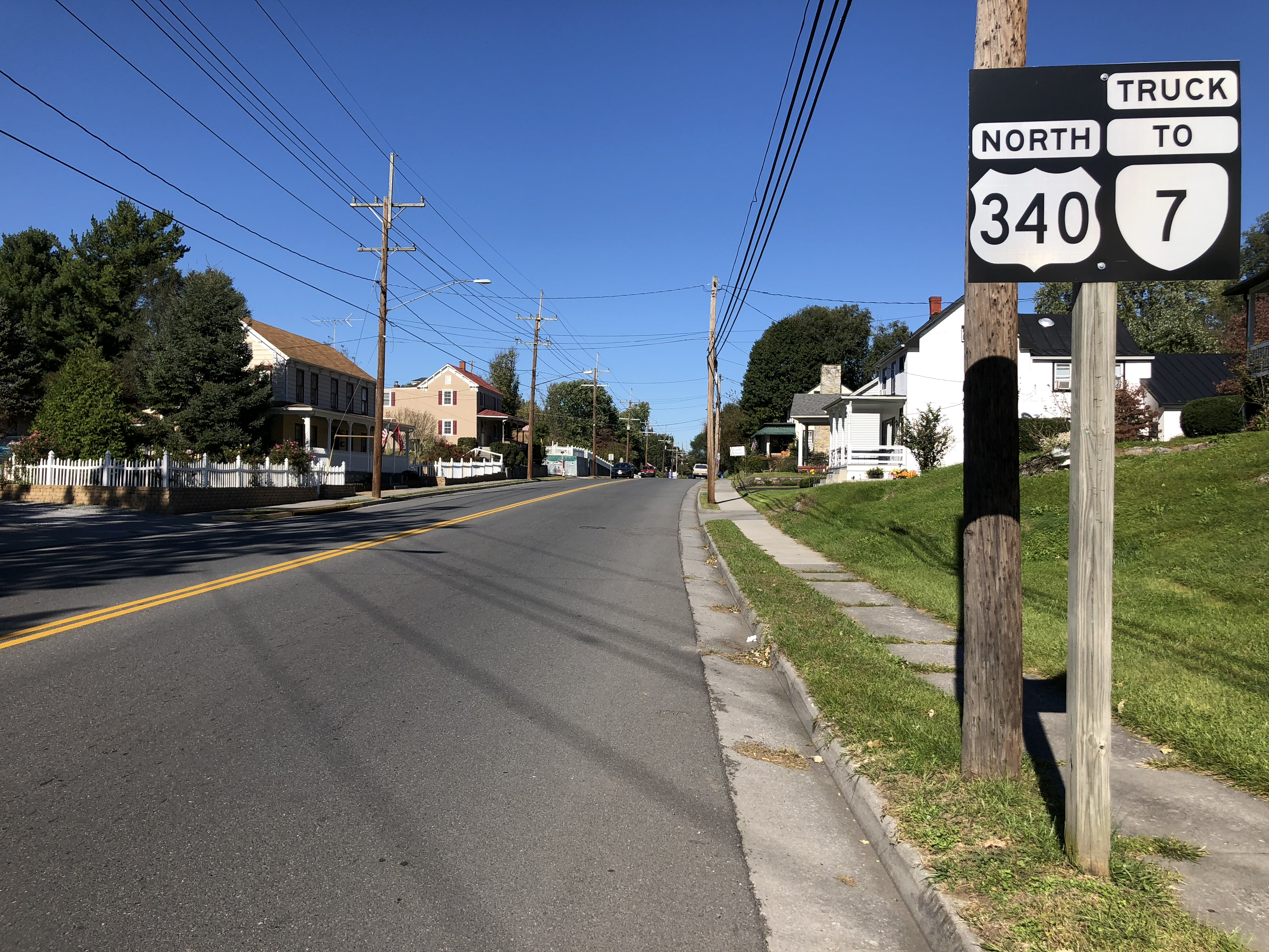 View north along U.S. Route 340 (Buckmarsh Street) just north of Academy Street in Berryville, Clarke County, Virginia